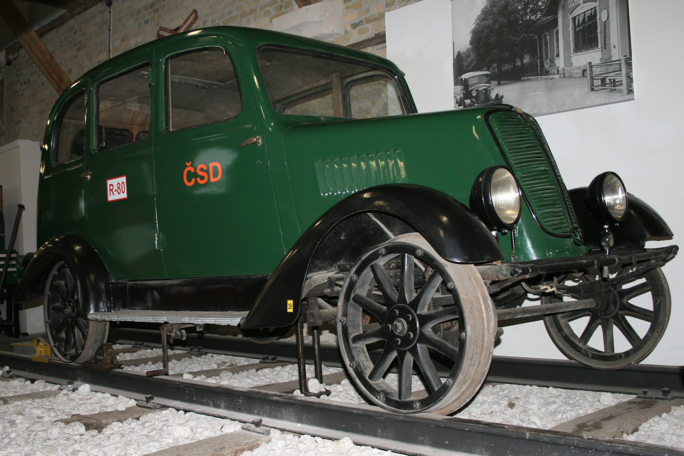 Draisine Tatra 15-52 from 1947 year. Exposition of Bratislava Transport Museum.